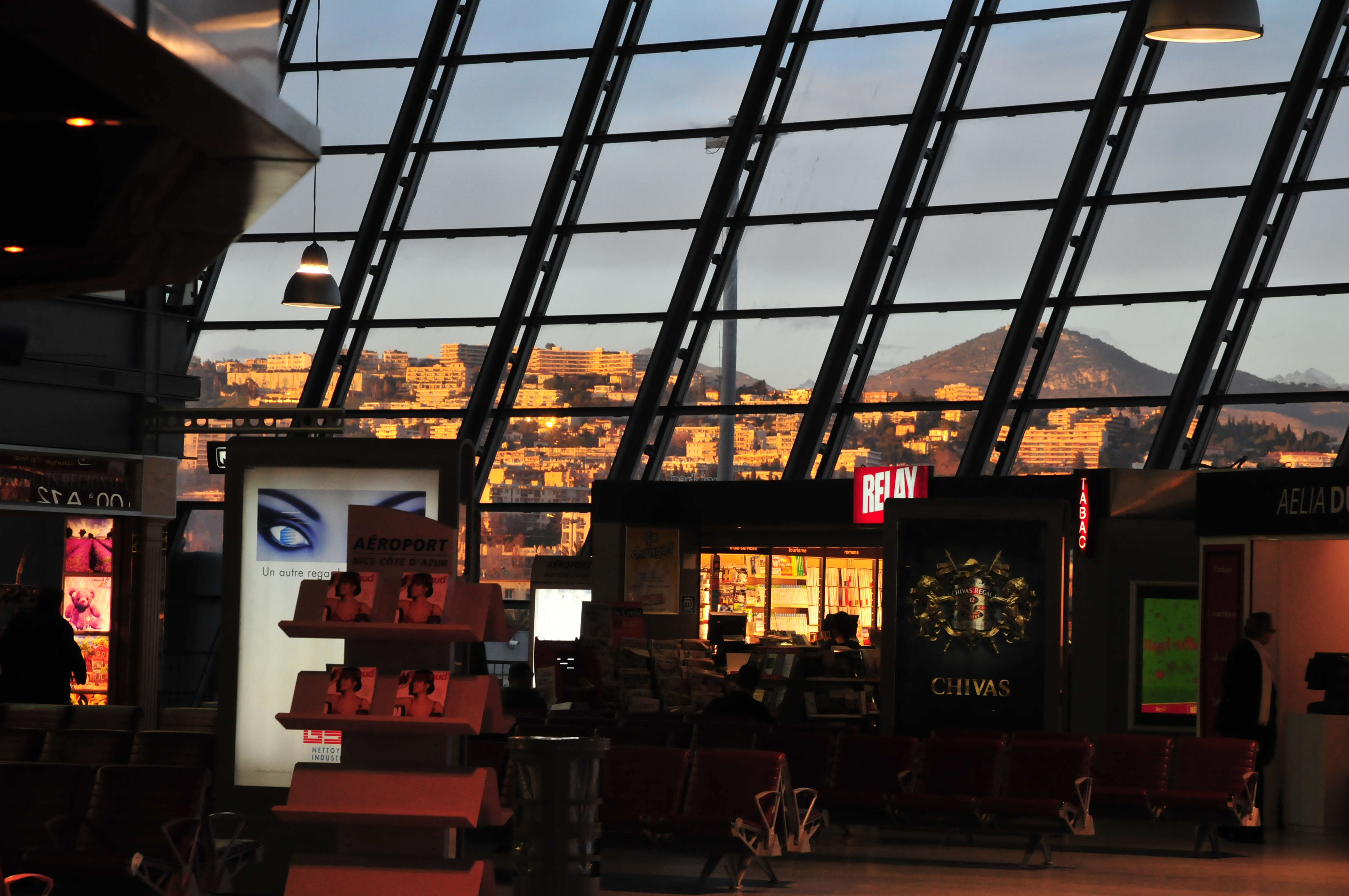 Interior of terminal 2 of aéroport Nice Côte d'Azur(Nice Côte d'Azur airport) in Nice, France.